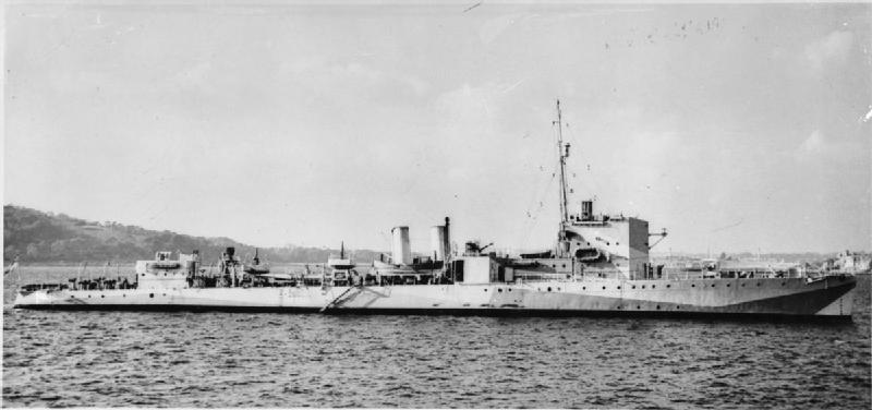 The Battle of the Atlantic 1939-1945 British Forces: HMS CLARE, a destroyer built in 1918, loaned to Britain in September 1940 and converted for long range escort work.